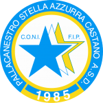 Logo Stella Azzurra Castano Primo